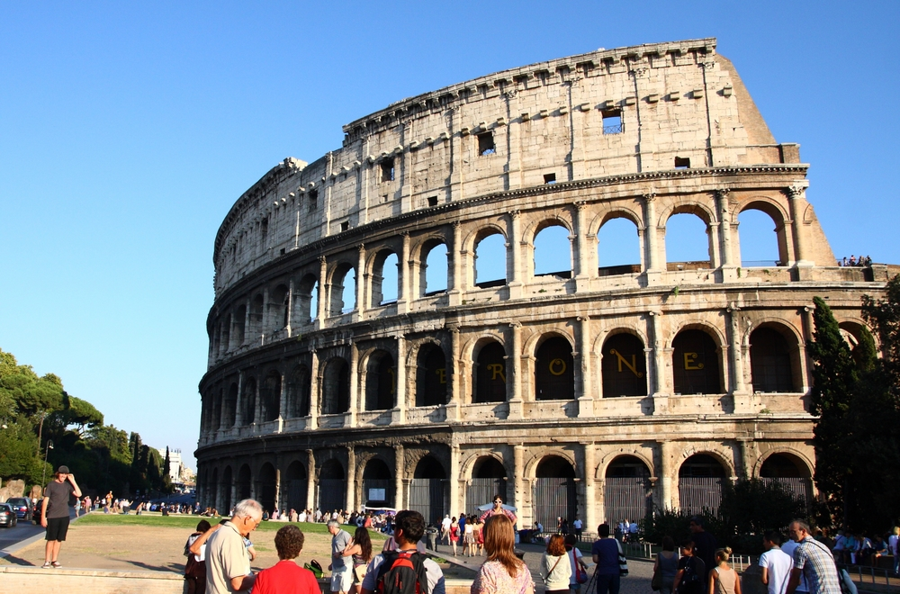 The Colosseum in rome- by Uri Bareket